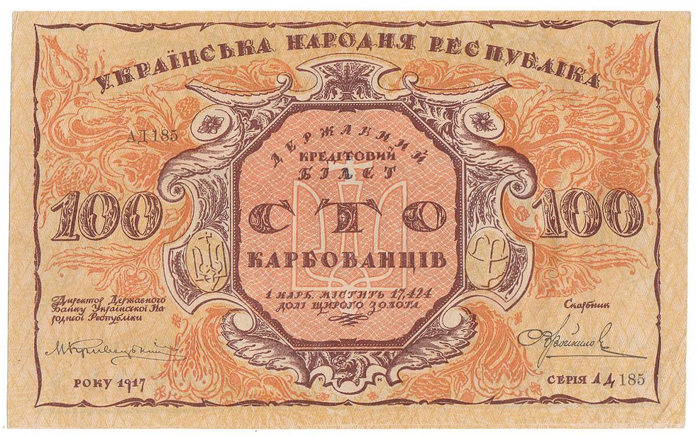 Obverse (front) of the 100 Karbovanets government credit note issued by the Ukrainian People's Republic. (Reverse of the banknote is File:100karbovantsevUNR R.jpg.